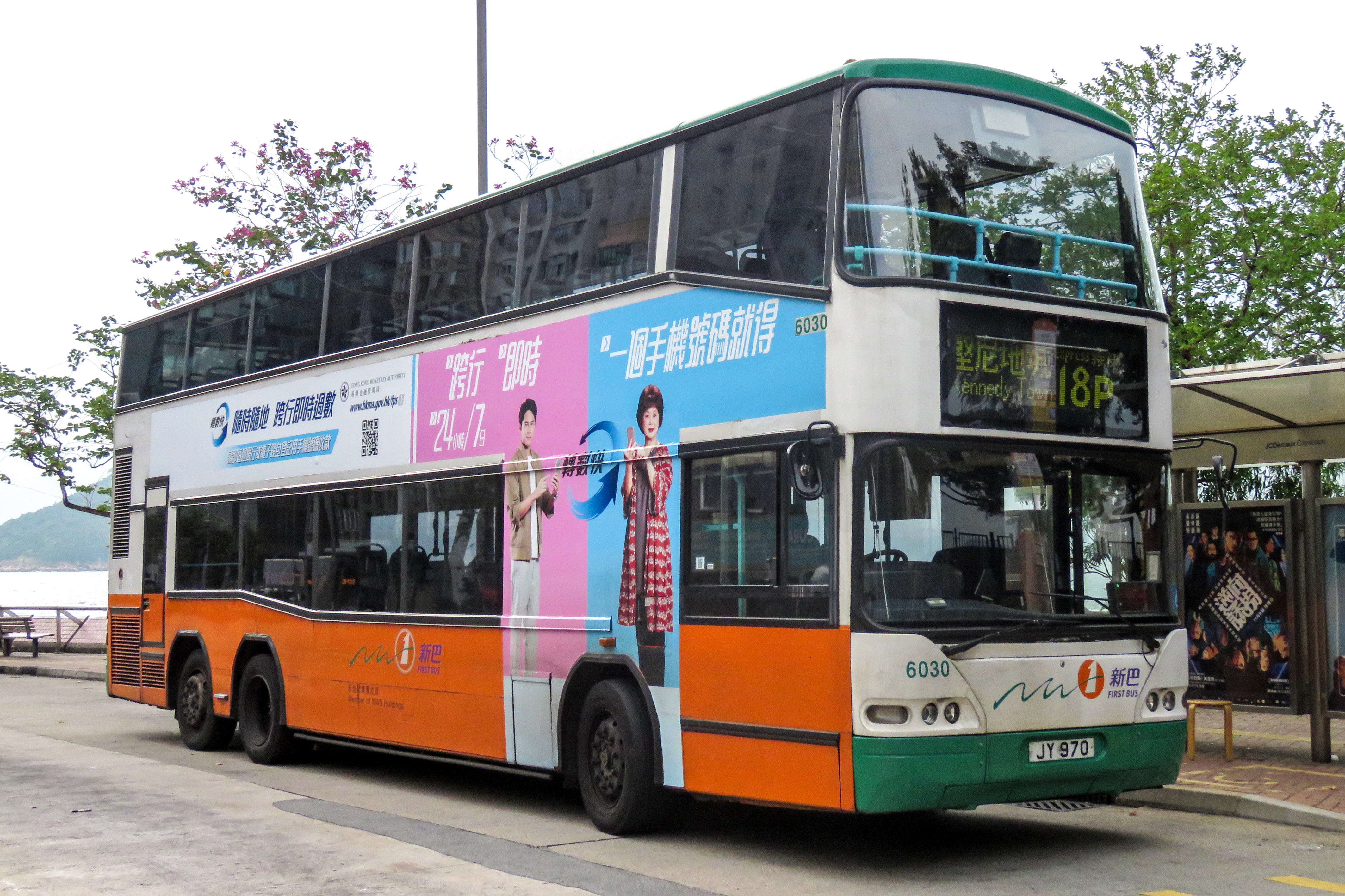 One of the surviving Neoplan Centroliners of NWFB.